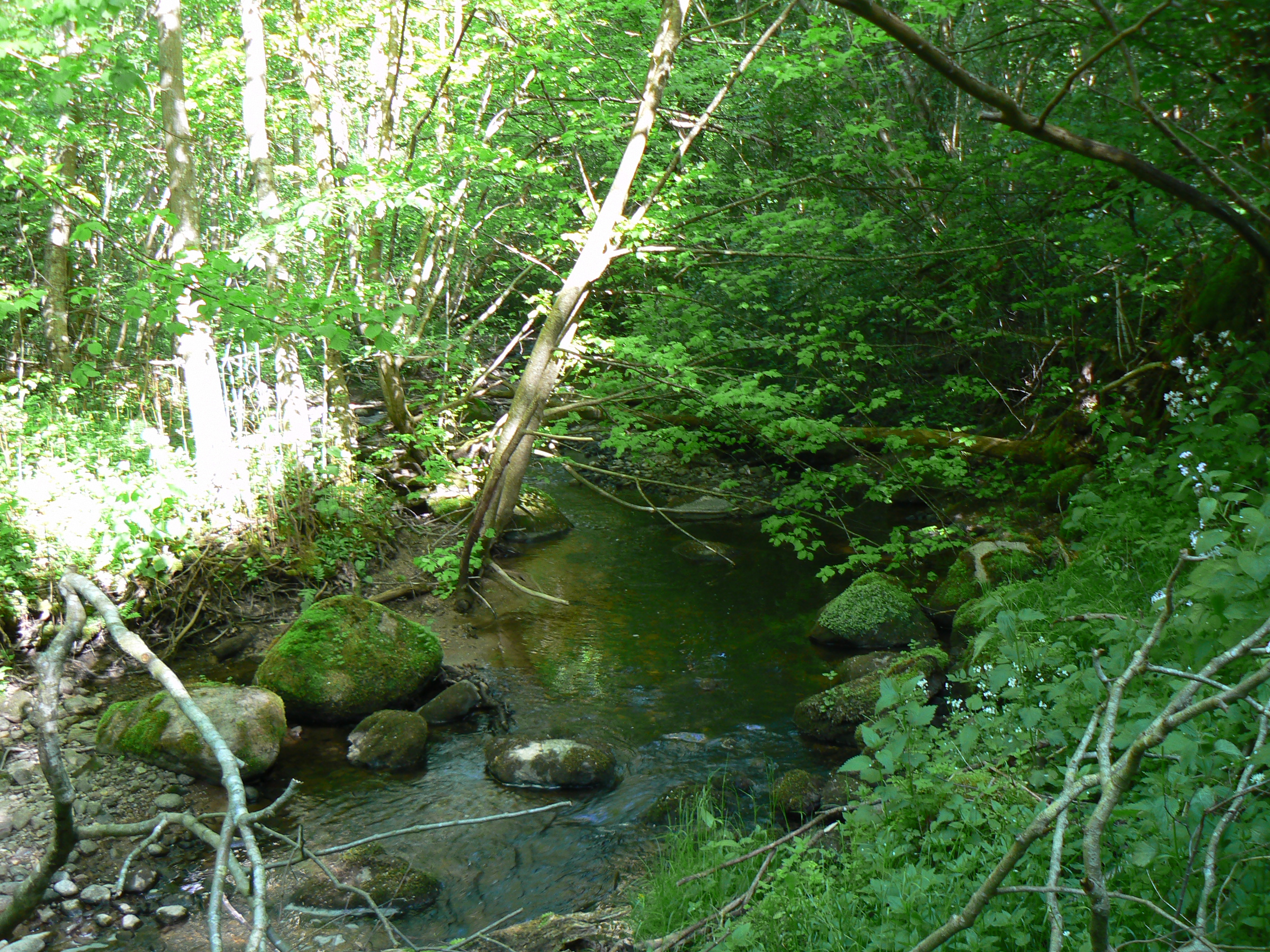 Rivulet Gerdaujė in Lithuania. SW from Gerduvėnų piliakalnisŽemaitėška: Gerdaujė šalēp Gerduvėnū pėliekalnė